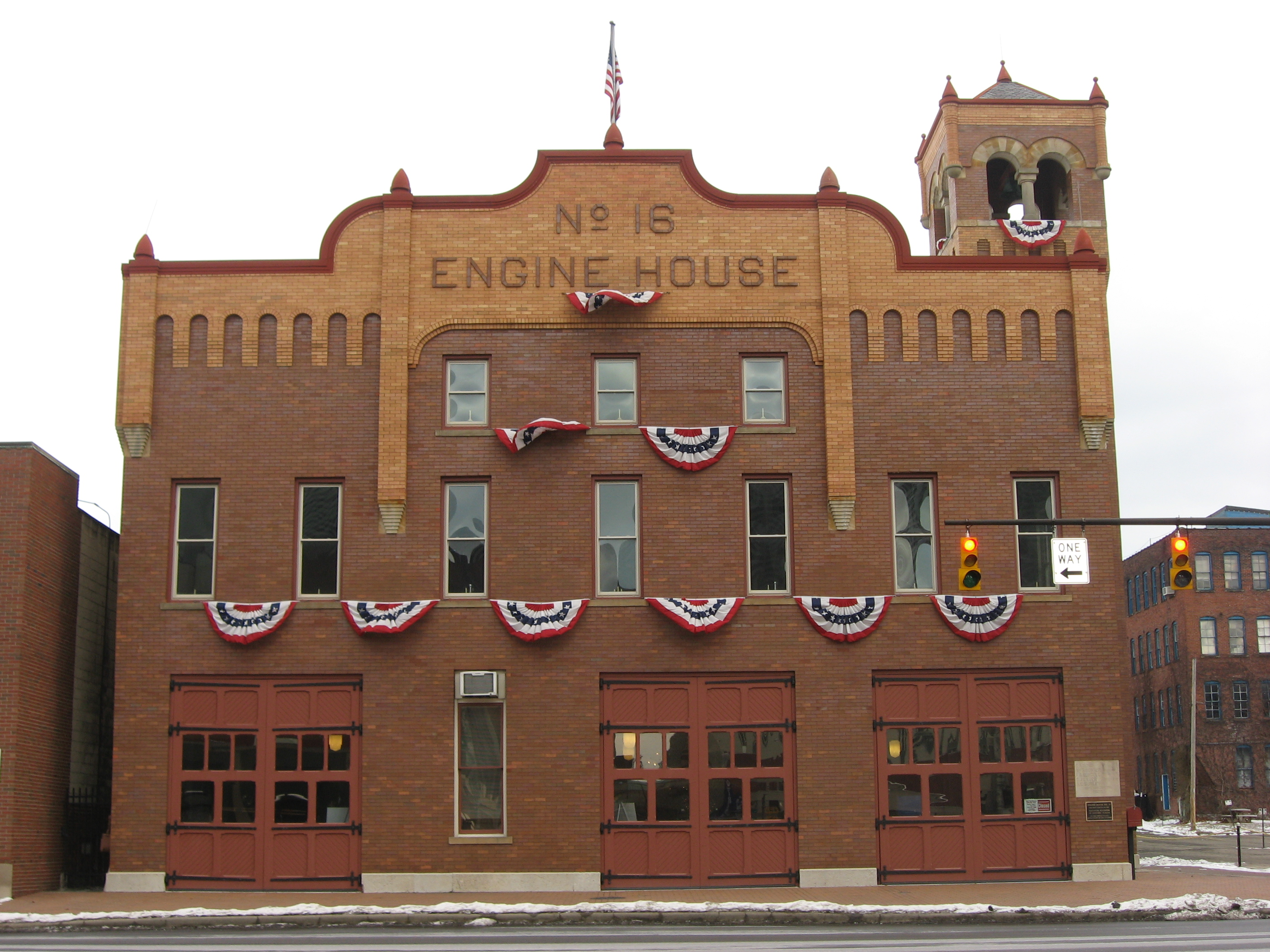 Front of the former Engine House No. 16 (now the Central Ohio Fire Museum), located at 260 N. Fourth Street in downtown Columbus, Ohio, United States. Built in 1908, it is listed on the National Register of Historic Places.